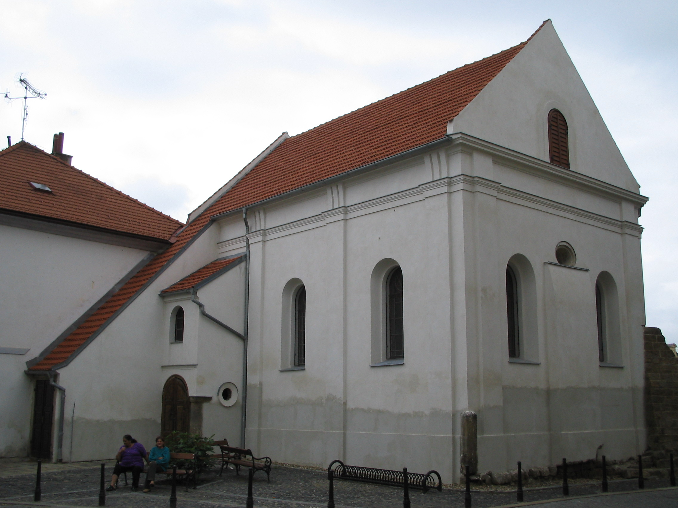 Synagogue in Jičín